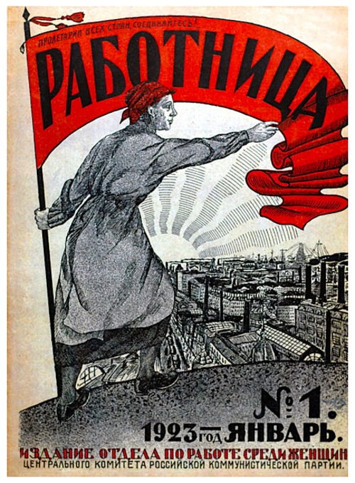 A 1923 edition of the Soviet women's Bolshevik magazine Rabotnitsa